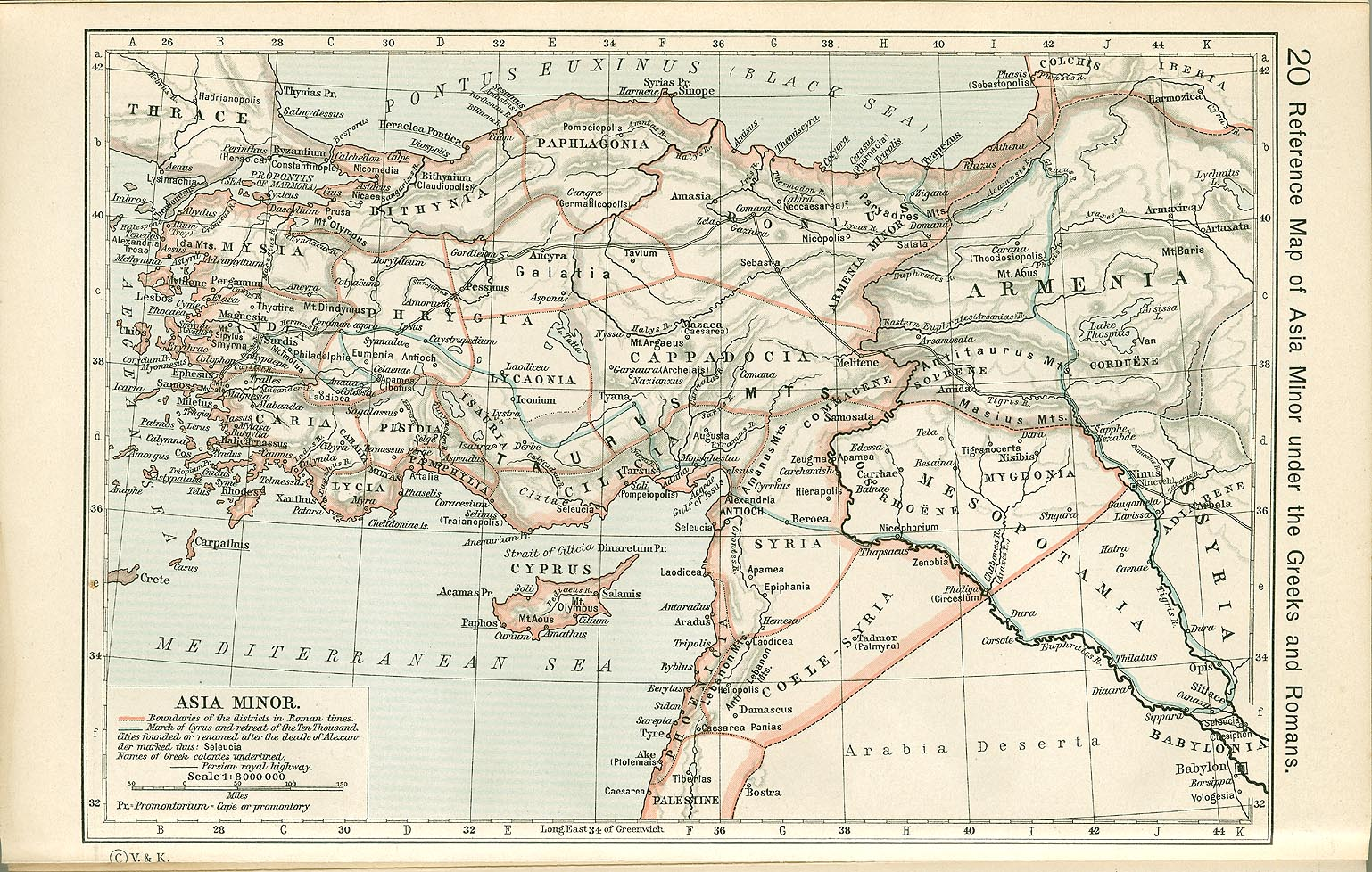 Reference Map of Asia Minor under the Greeks and Romans. Historical Atlas by William R. Shepherd, 1911. Courtesy of the University of Texas Libraries, The University of Texas at Austin. From The Historical Atlas by William R. Shepherd, 1911 edition